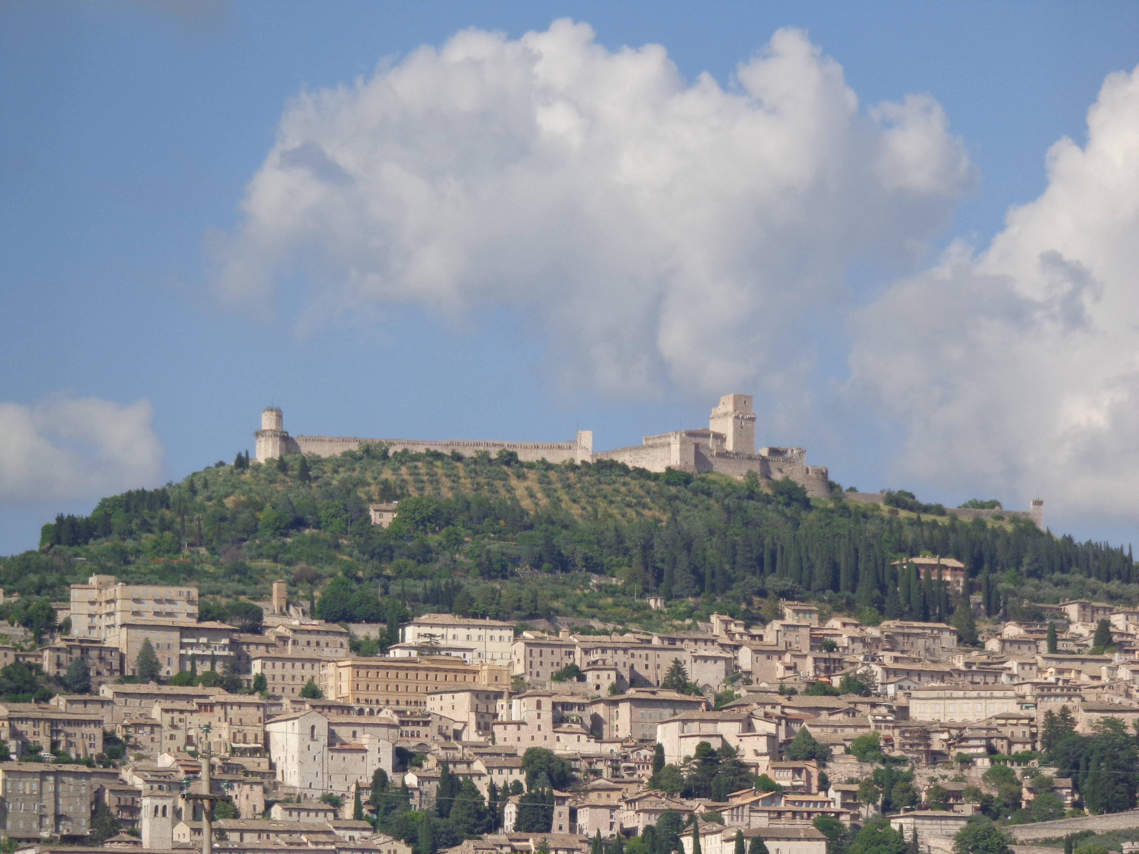 Rocca Maggiore (Assisi)